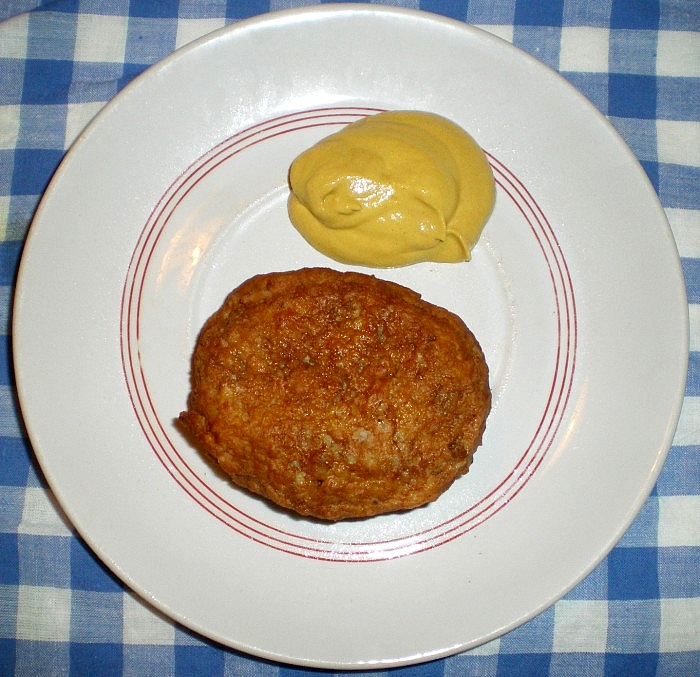 meatball, rissole, hamburger